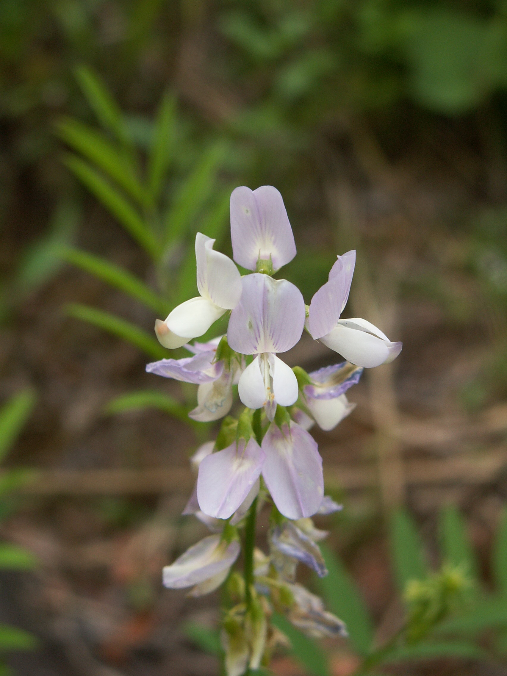 Inflorescence of the Goat's Rue (Galega officinalis)